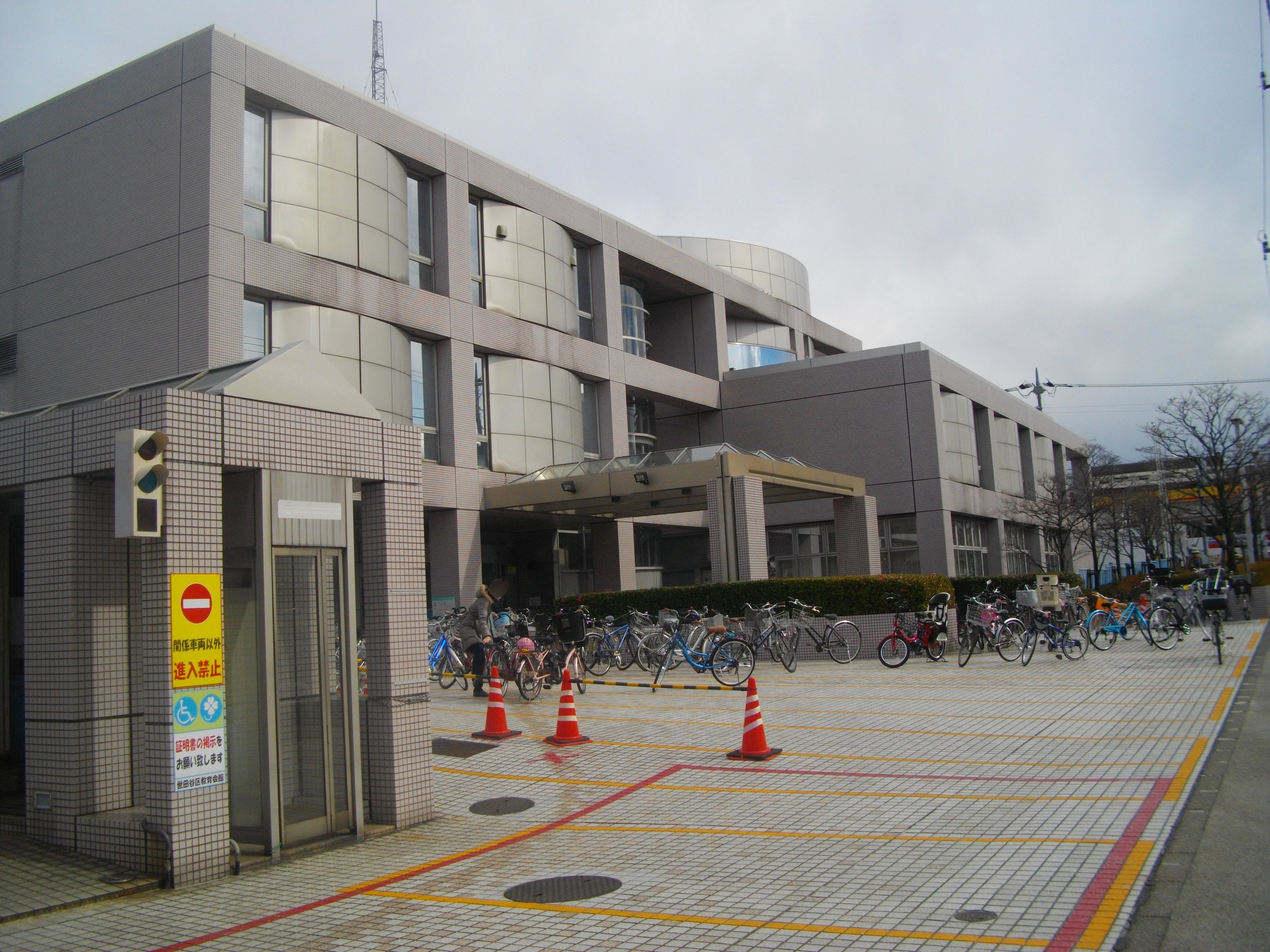 A photo of Setagaya Educational Center Tsurumaki,Setagaya-ku,Tokyo,Japan.